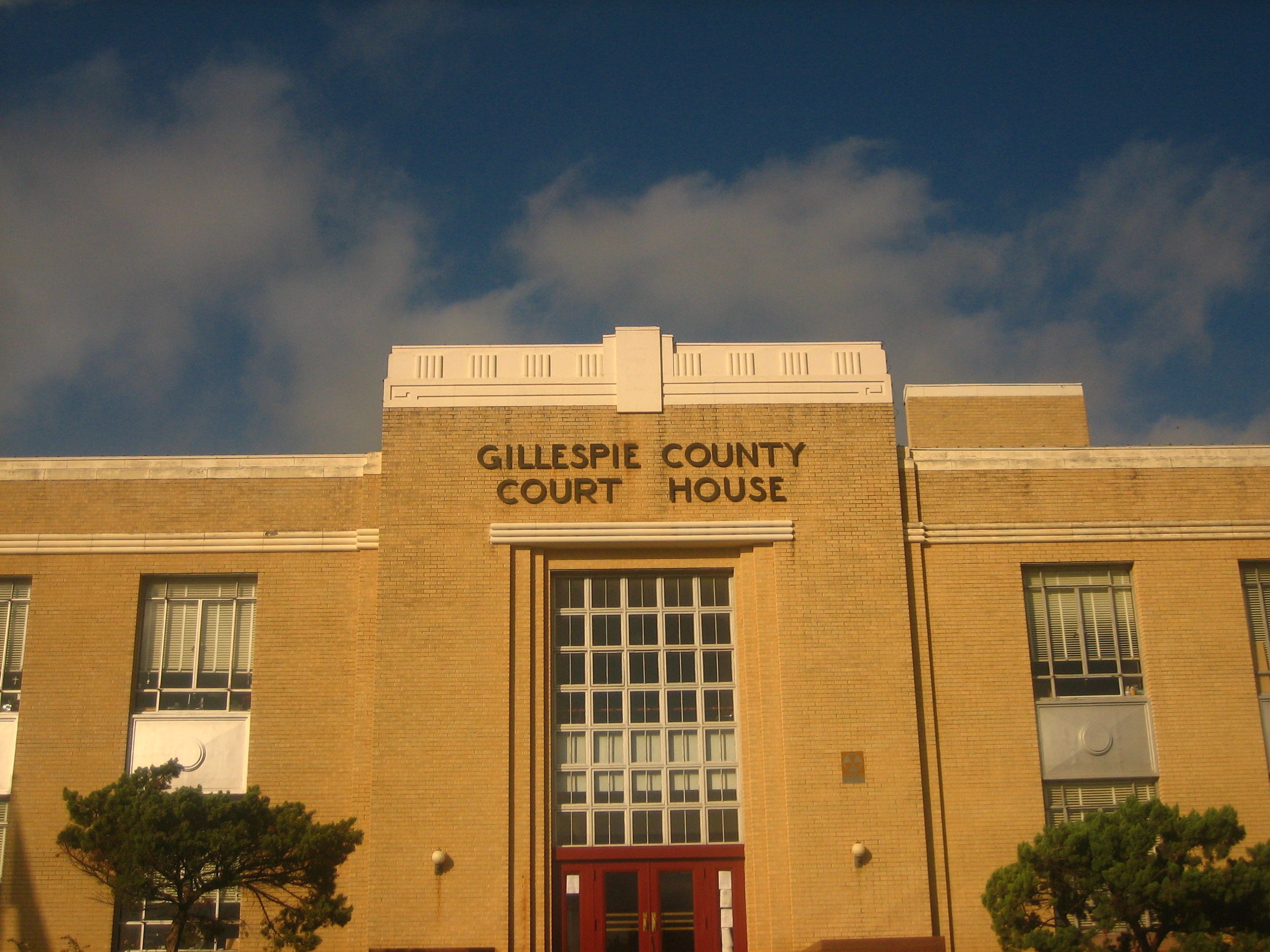 The Gillespie County Courthouse in Fredericksburg, Texas, United States. I took photo on July 18, 2008.Billy Hathorn (talk) 17:55, 20 July 2008 (UTC)